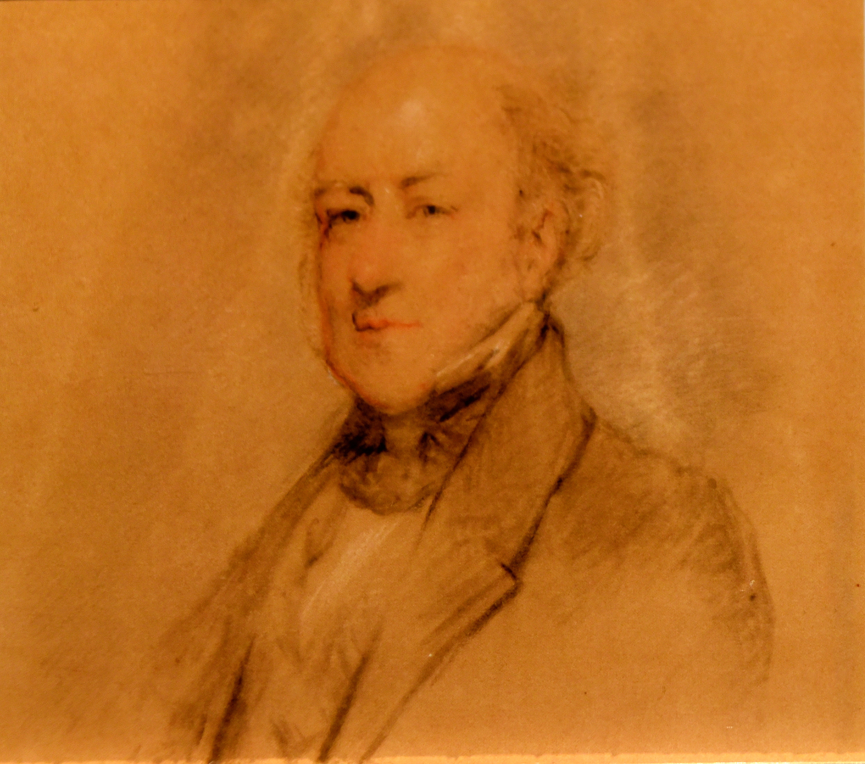 Mr. Slade's bequest of over 8000 prints included work by the best British printmakers. This portrait of Mr. Slade by Margret Sarah Carpenter, circa 1851, is the only one known. Her husband, William, was the keeper of Prints and Drawings and a friend of Slade. This image is on display at the British Museum and the original image is © Trustees of the British Museum.